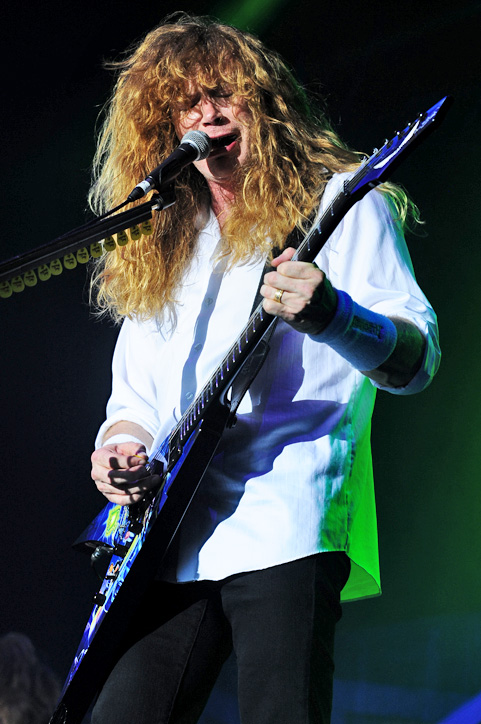 No Sleep Til Festival 2010